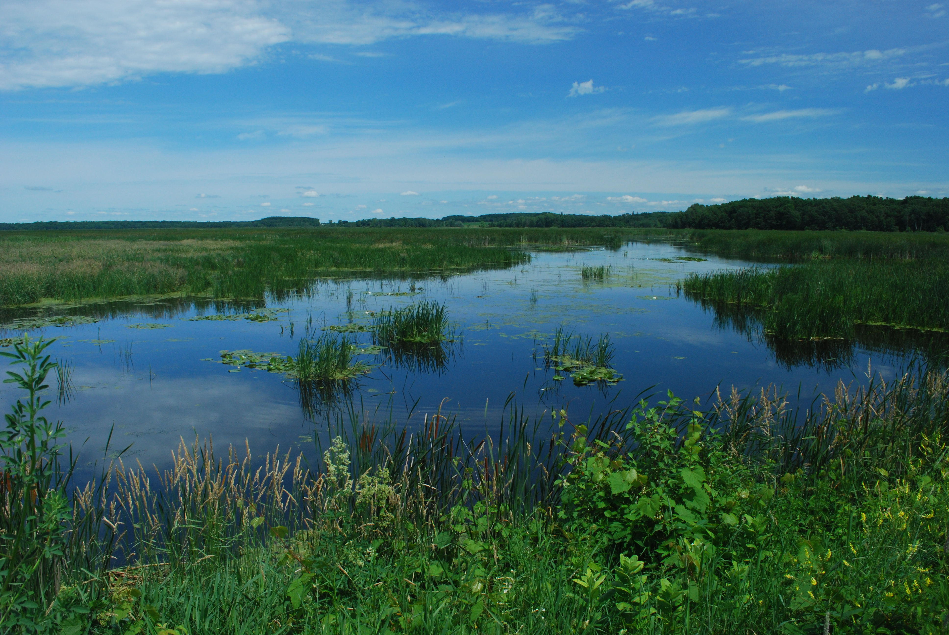 French Creek Fen Wisconsin State Natural Area #546 Columbia County